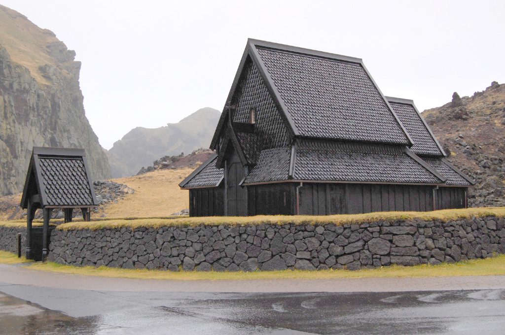 In approx 1000 AD King Olav Tryggvason of Norway sent missionaries to Iceland with the instruction to build a church wherever they reached the shore. At the 1000th anniversary of this remarkable event, the current Norwegian government made the decision to build another church at approximately the same location. The church was built in Norway as a copy of Haltdalen stave church in Trøndelag folkemuseum, Trondheim, Norway. When finished it was transported to its current location, and apparently assembled in two days.